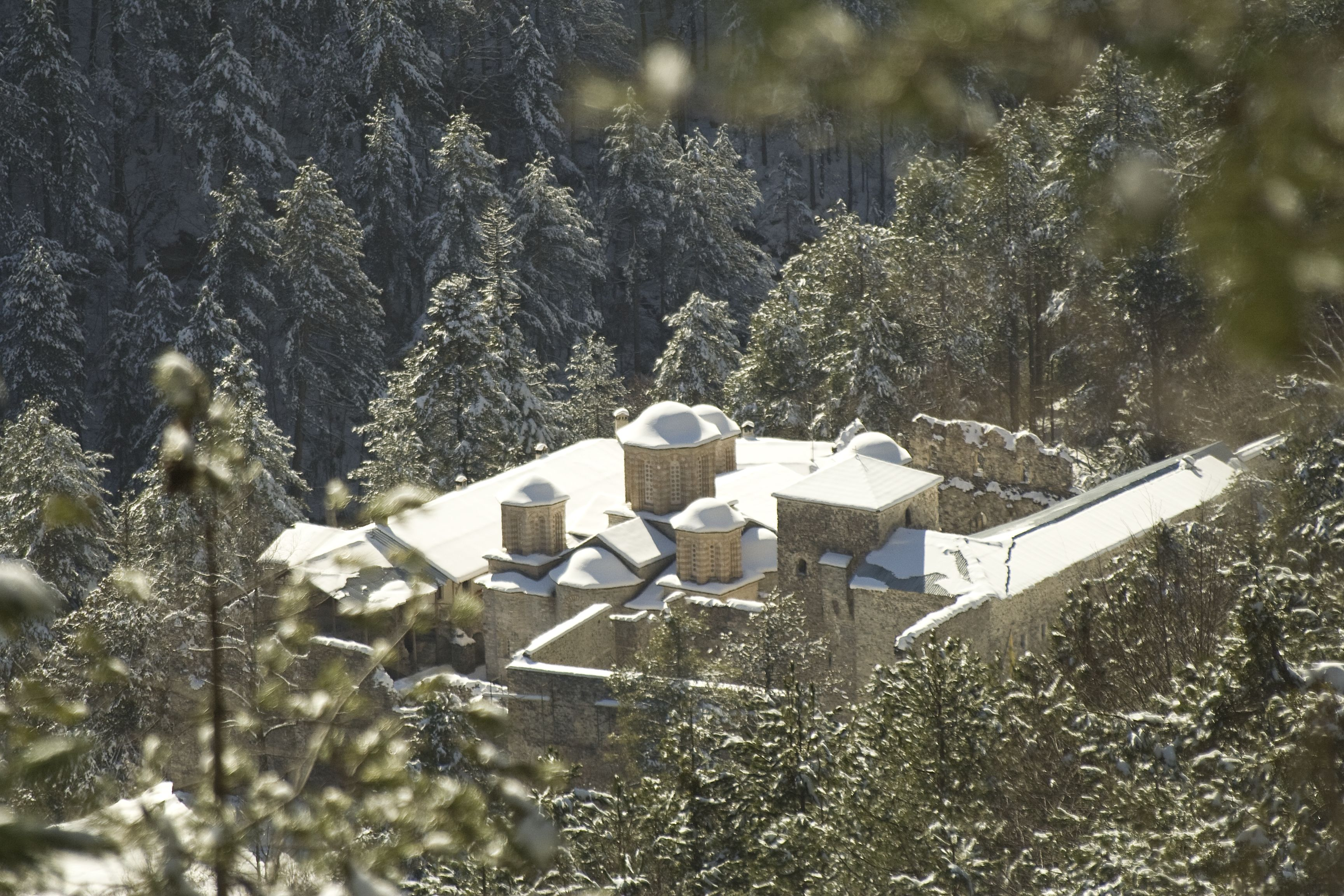 Monastery in Winter